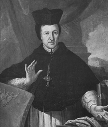 Portrait of Abbot Rupert Ness (Rupert II), abbot of Ottobeuren Abbey from 1710 to 1740. Contemporary portrait.